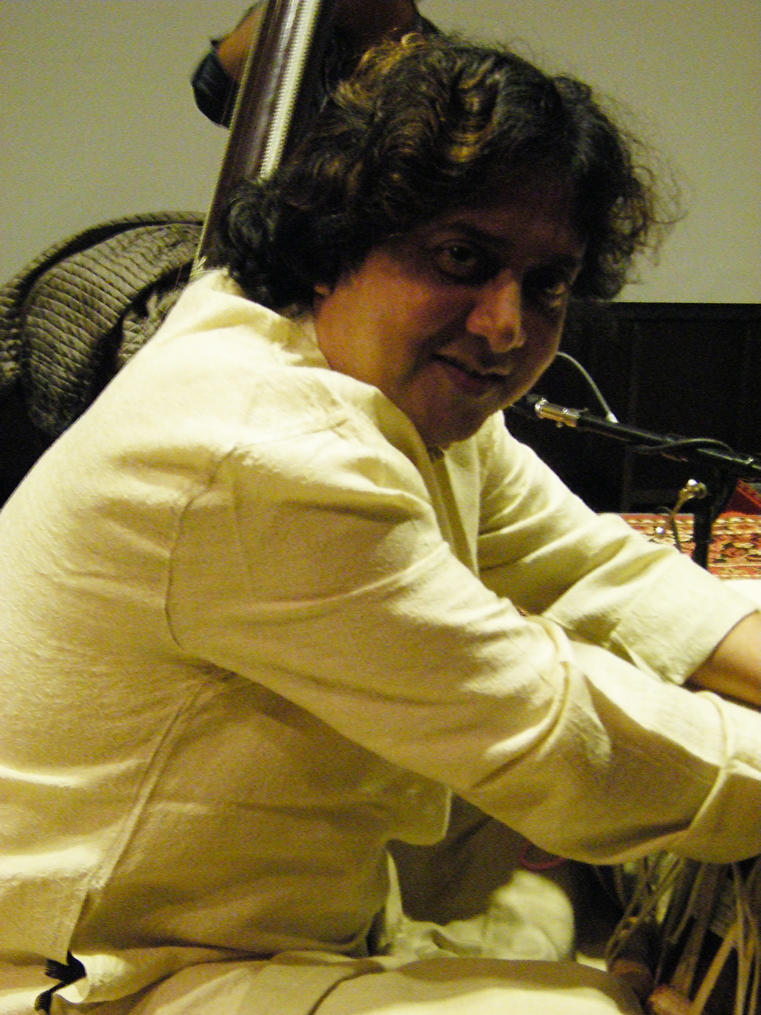 Tabla player Subhen Chatterjee, accompanying vocalists Rajan and Sajan Mishra (not shown) performing at Kane Hall, University of Washington as part of the Ragamala concert series.